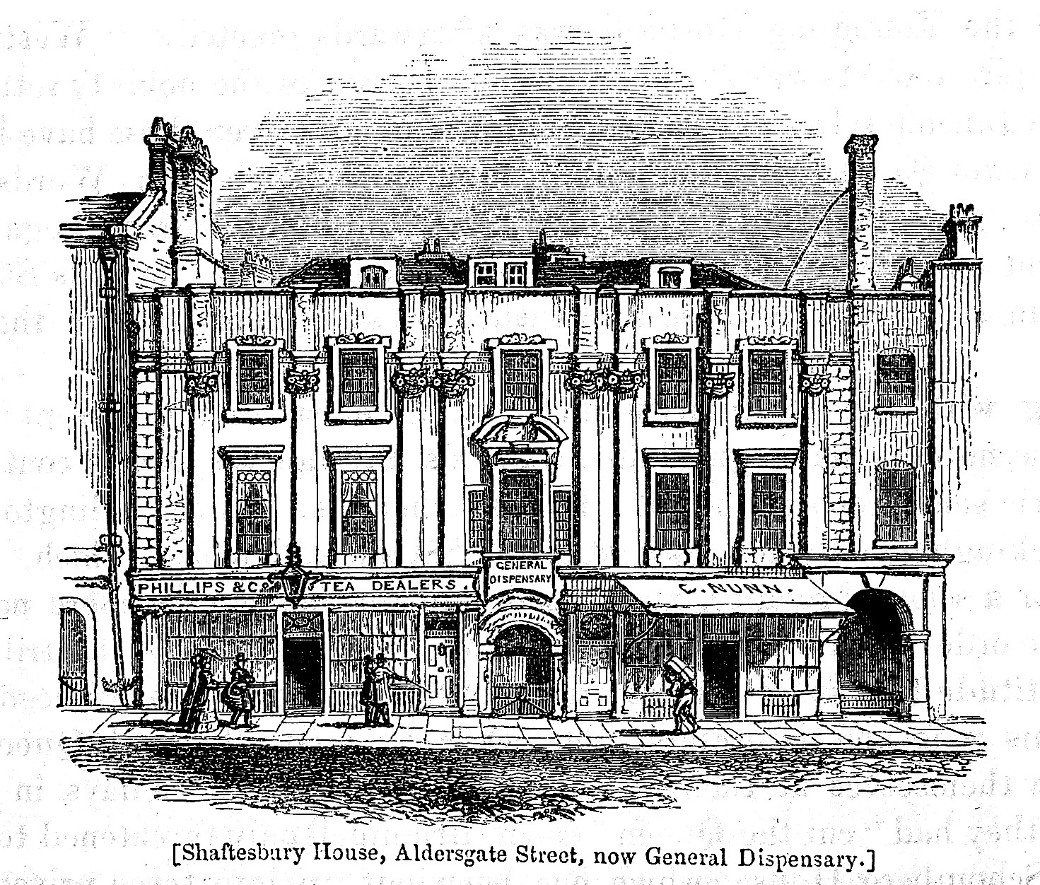 Charles Knight, Shaftesbury House, Aldersgate Street, now General Dispensary. Rare Books Keywords: Charles Knight